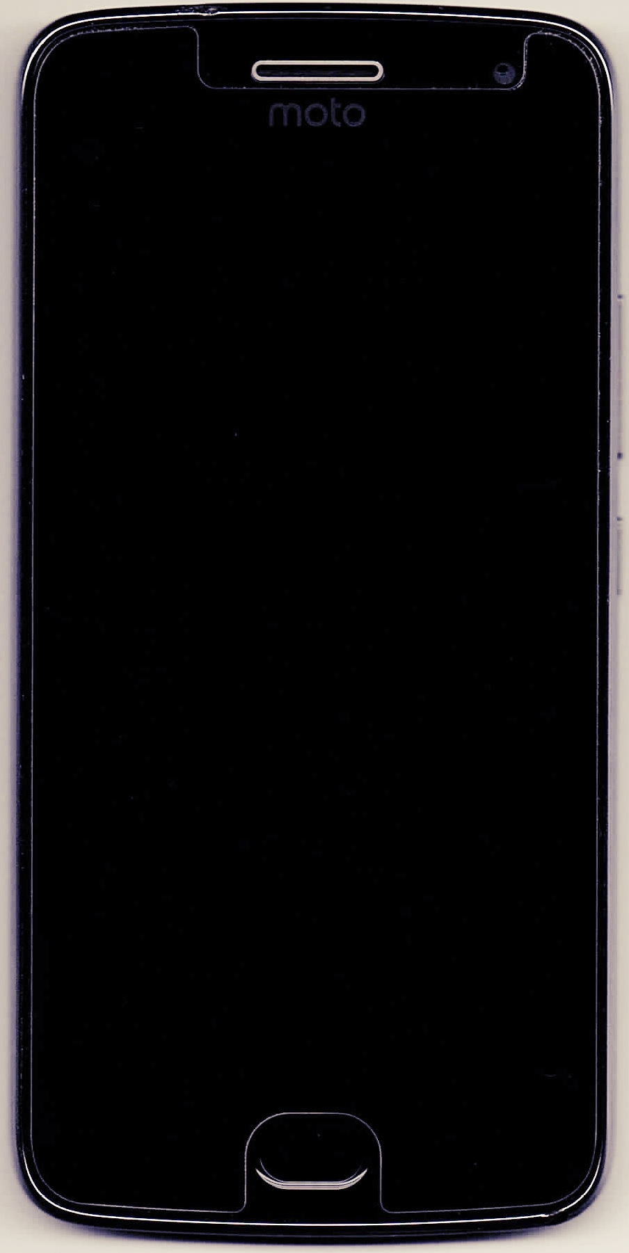 Motorola Moto G5 Plus XT1687 US model with 4 GB RAM and 64 memory internal